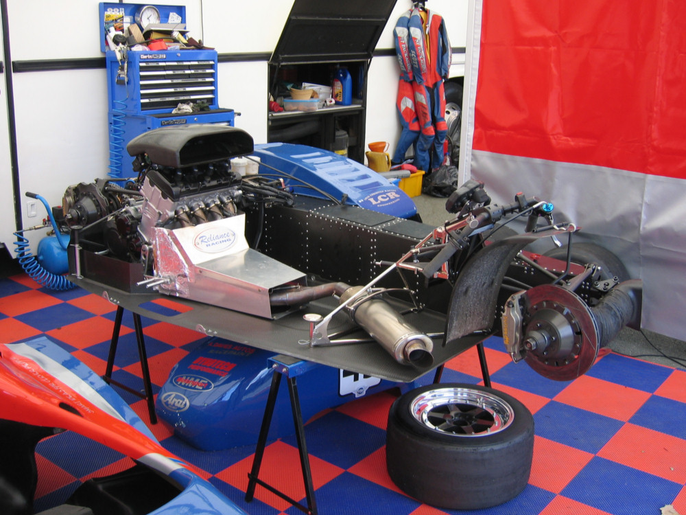 front view of a modern LCR-sidecar whithout fairing